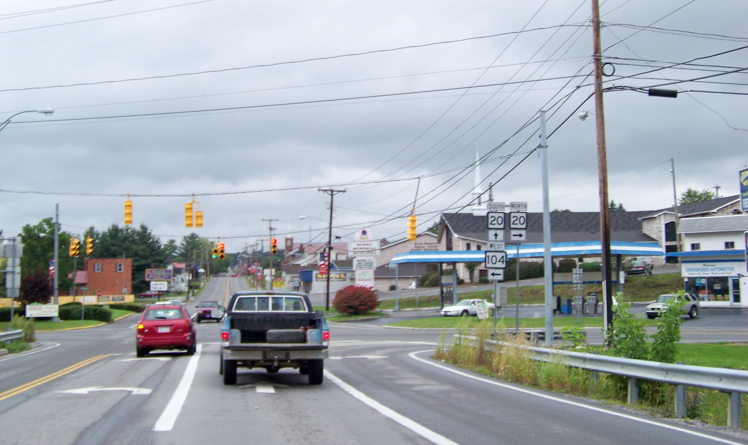 Athens Road and Oakvale Road